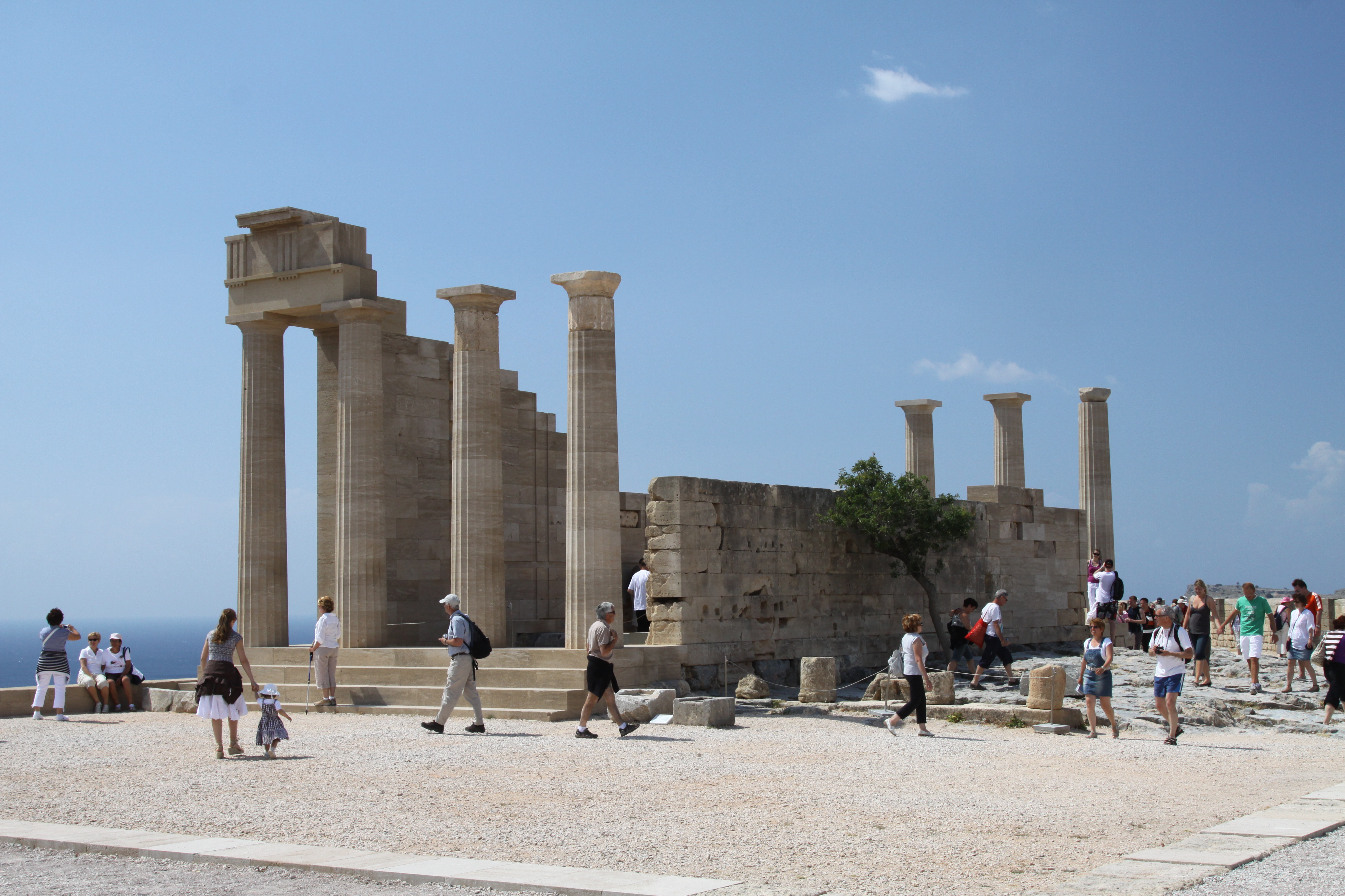 Akropolis in Lindos